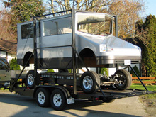 A Ridek 3 modular electric vehicle's body can easily be lifted off to replace the chassis with one containing fully charged batteries, or to change to a different body style on the same chassis.